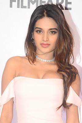 Nidhhi Agerwal graces the Filmfare Glamour and Style Awards 2017